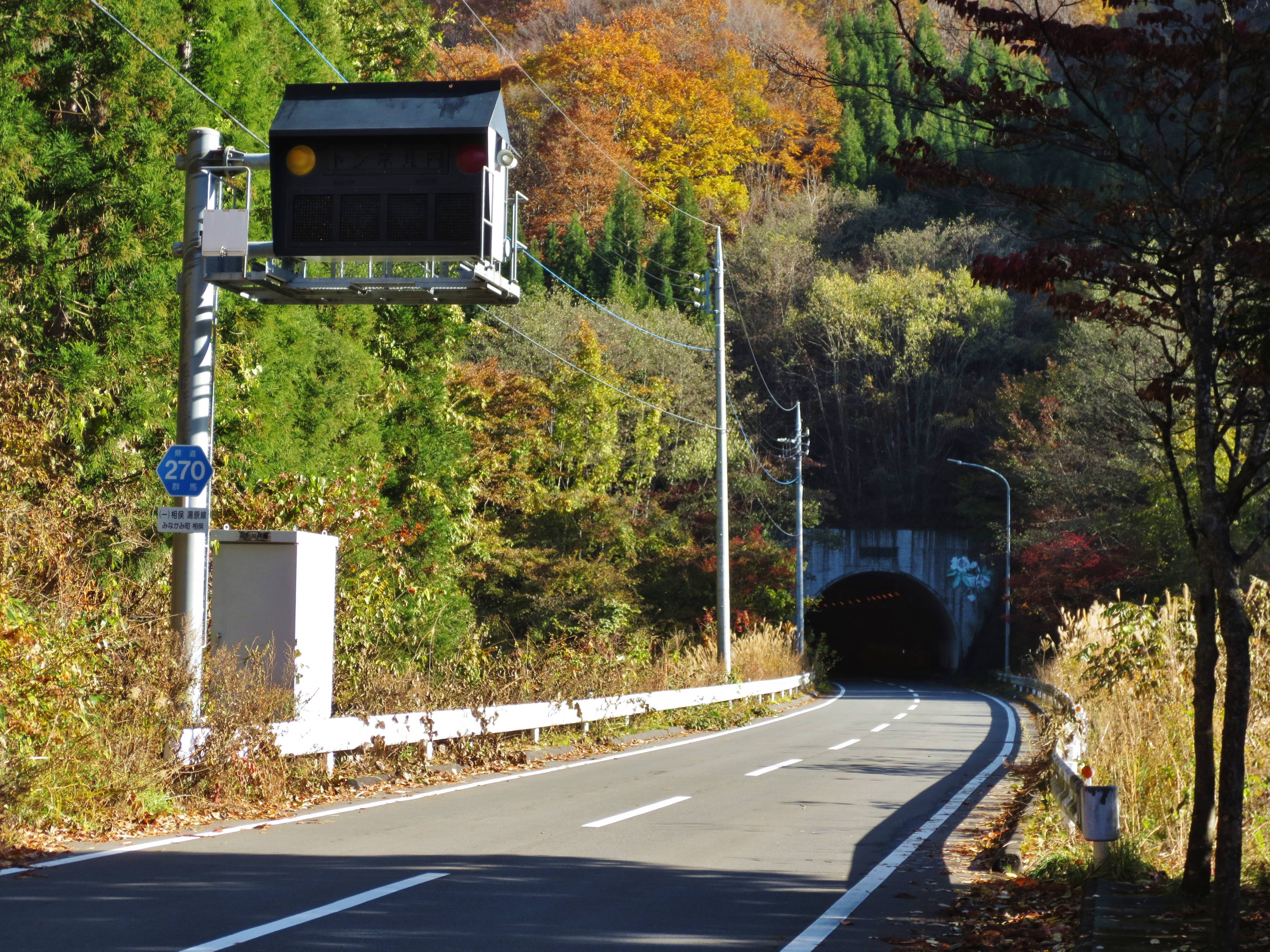 Hotokeiwa Tunnel.